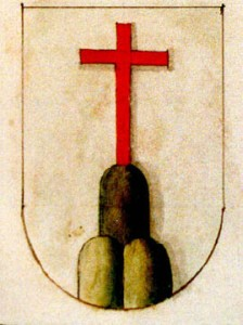 Emblem of Hermits of St. Jerome of Fiesole, by Fontana, in Insegne di varii prencipi et case illustri d'Italia e altre provincie, ms. in Biblioteca estense universitaria, Modena, (1605)